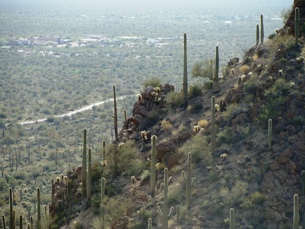 Gates Pass, Tucson Mountain County Park, Arizona.View overlooking the Avra Valley region, western border of Tucson. The Tucson Mountains are within the eastern Avra Valley, and the western perimeter of Tucson.